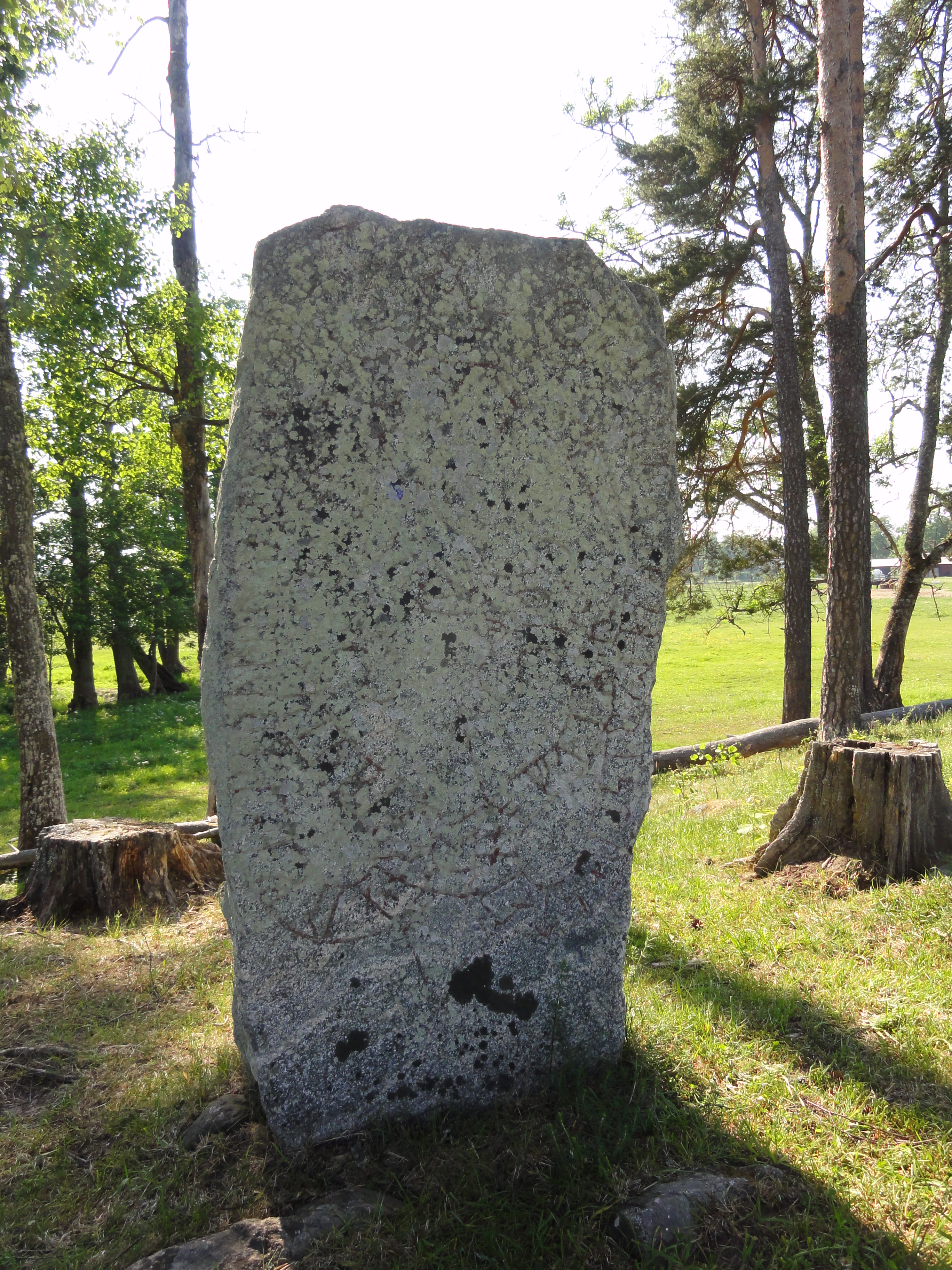 Runestone U524, Penningby, Uppland